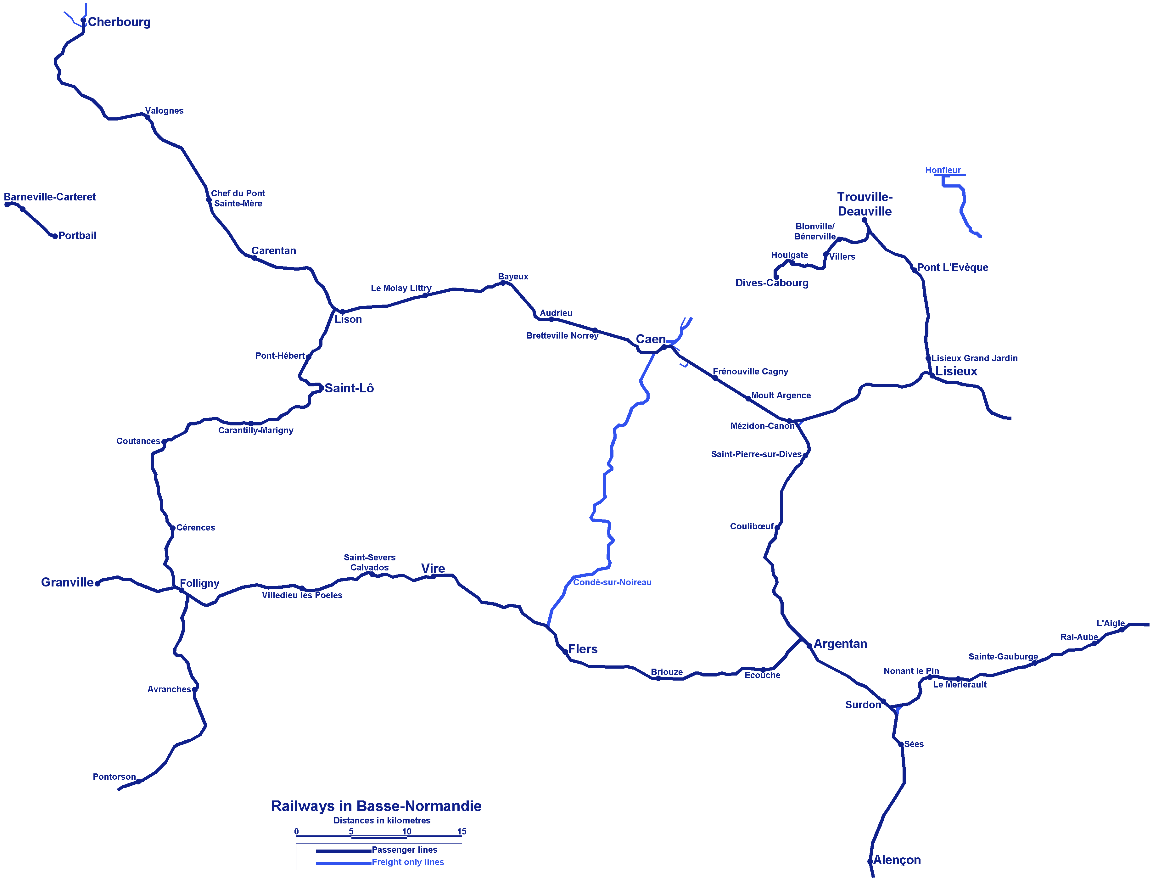 Plan of railways in Basse-Normandie, France.